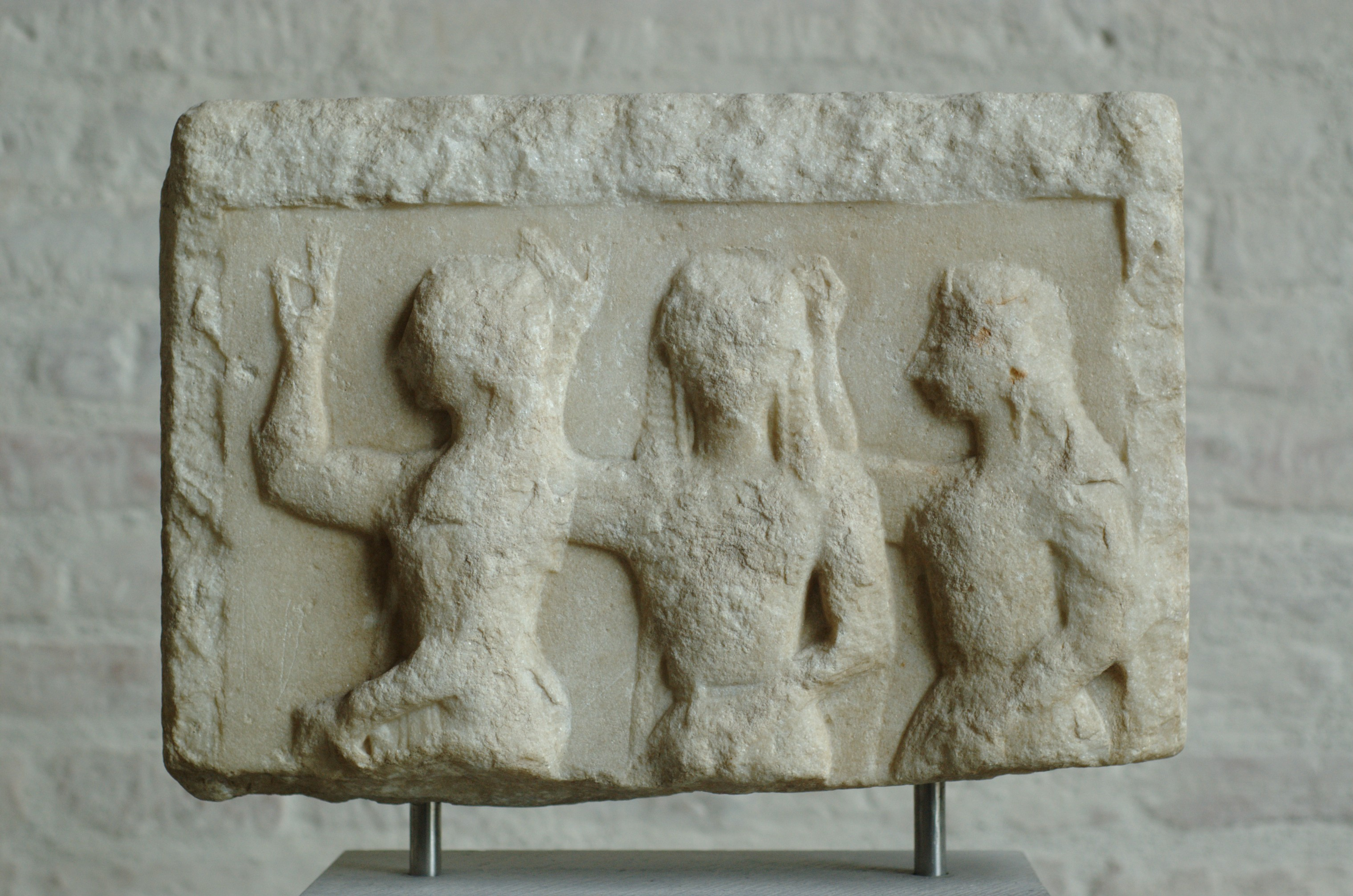 Women danse, maybe the Charites Aglaea, Thalia and Euphrosyne. Relief from the island Paros, ca. 570–560 BC.